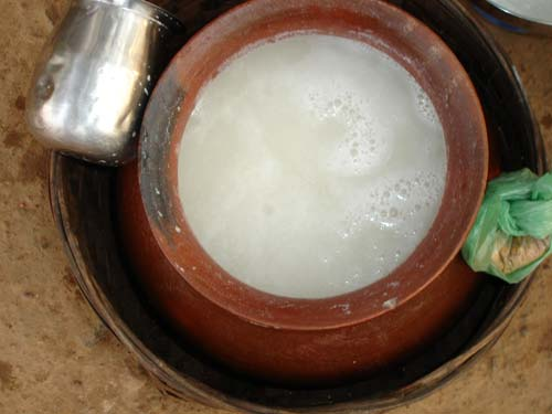 Famous Country Drink prepared from Salfi (Caryota urens) in Bastar, Chhattisgarh, India